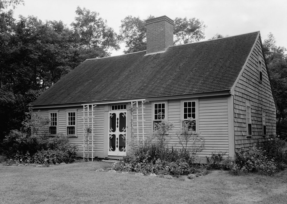 The Thomas Atwood House in Wellfleet, Massachusetts. Now part of the Cape Cod National Seashore.